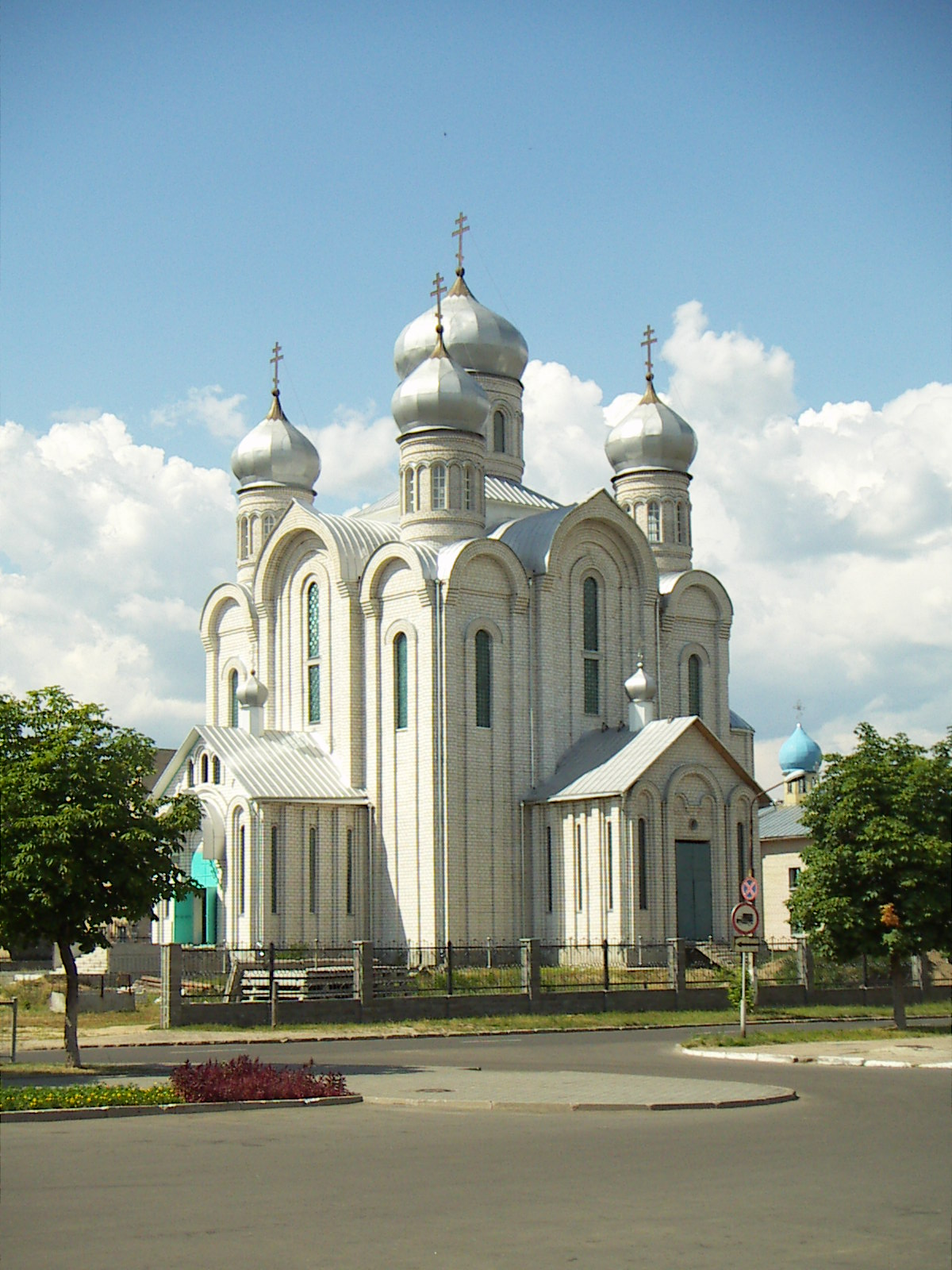 Eastern Orthodox cathedral in Svetlahorsk, Belarus